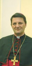 Mario Grech, roman catholic bishop of Gozo, Malta